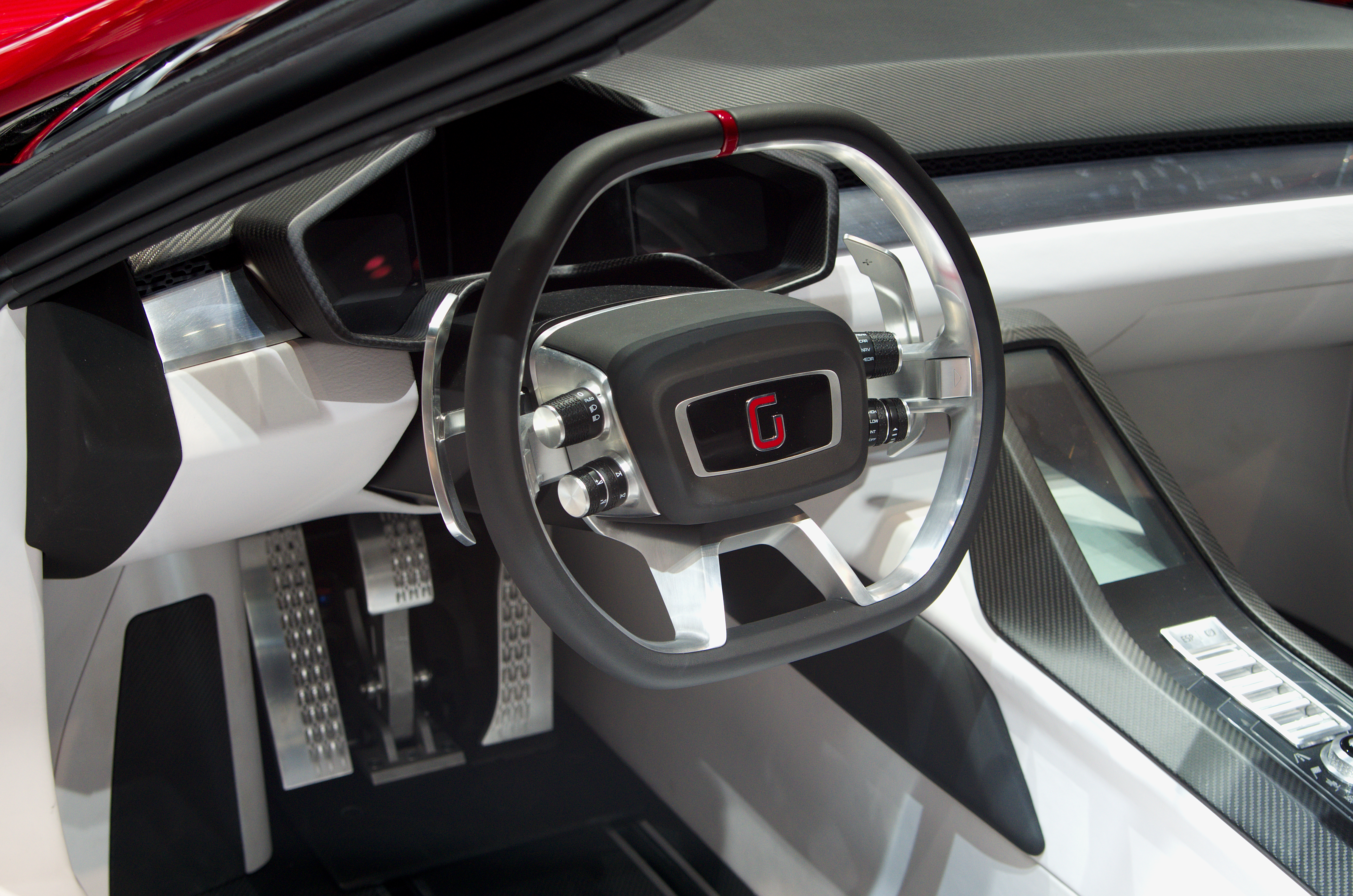 Geneva MotorShow 2013 - Italdesign Giugiaro Parcour XGT-Coupe red steering wheel